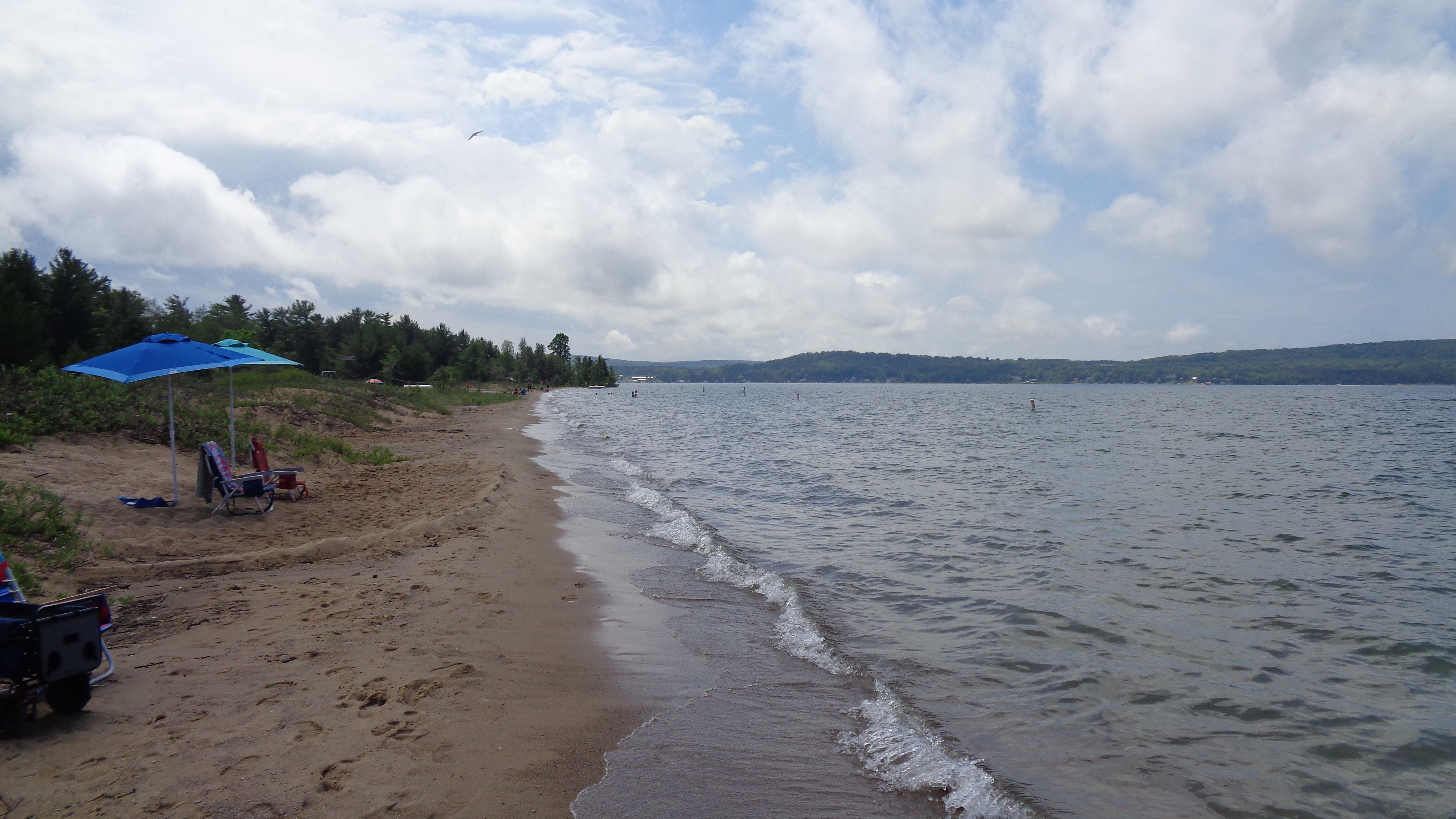 Depicted place: Young State Park